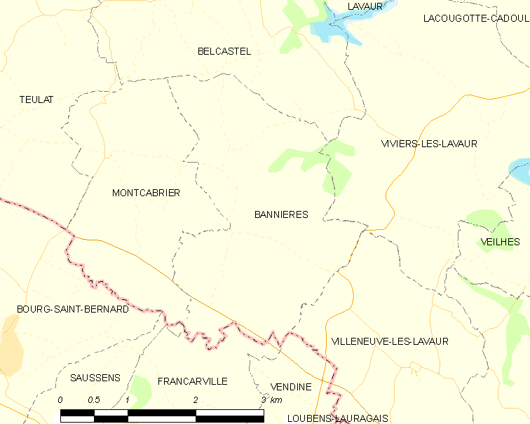 Map of French municipality Bannières